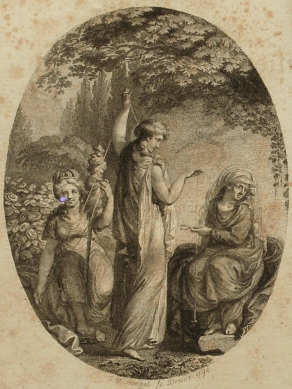 Art showing the three fates, losslessly cropped from File:Hufeland 1797.jpg